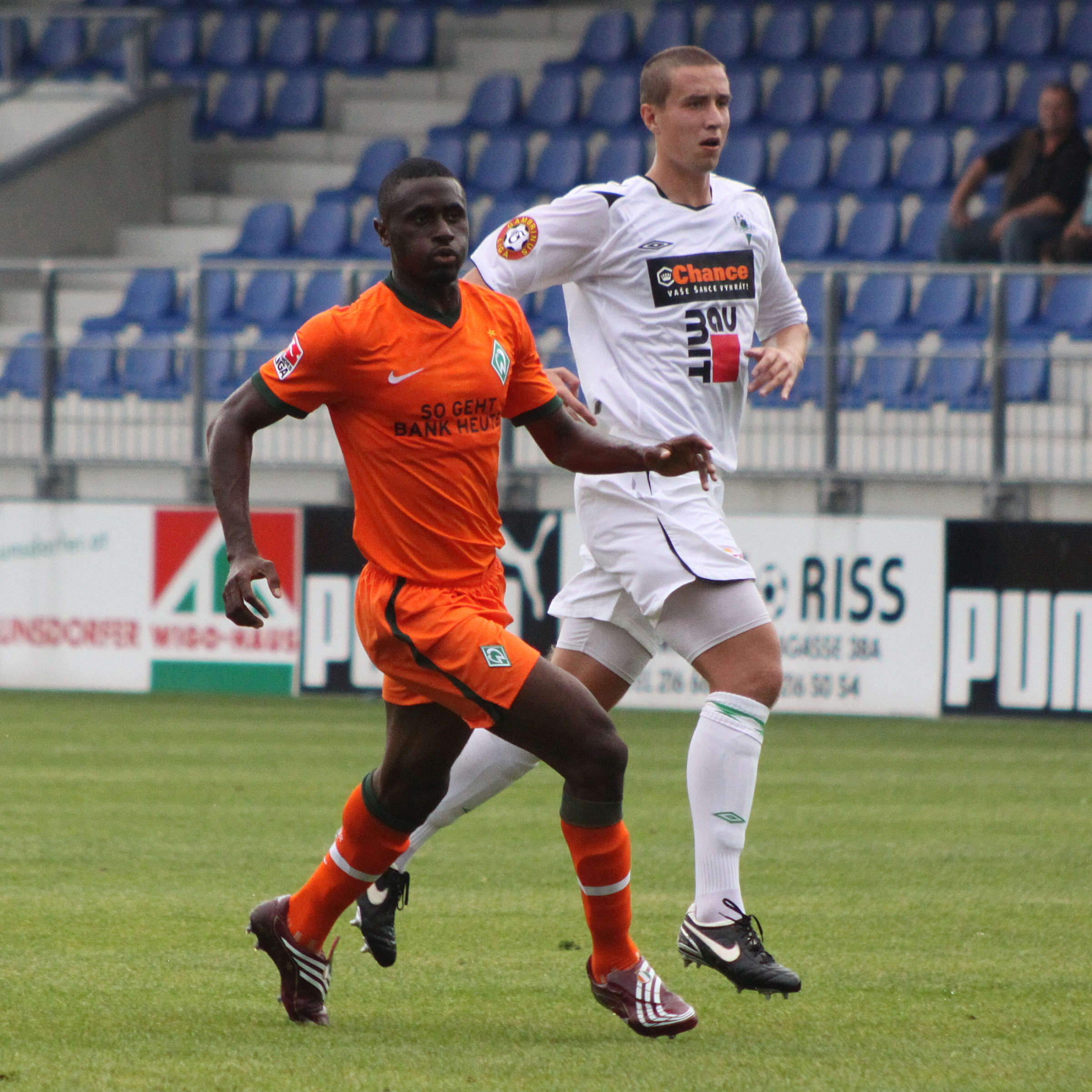 Tomáš Huber (FK Baumit Jablonec), Boubacar Sanogo (SV Werder Bremen)